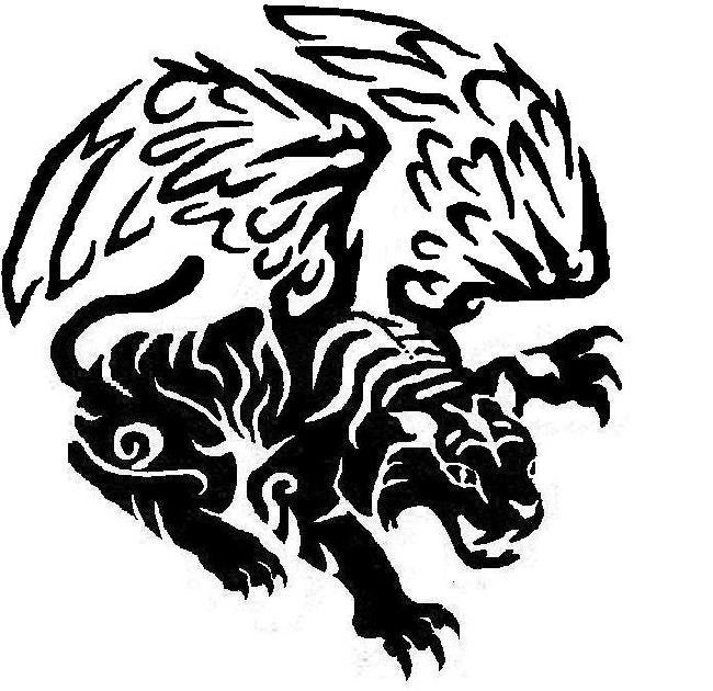 Brand Logo